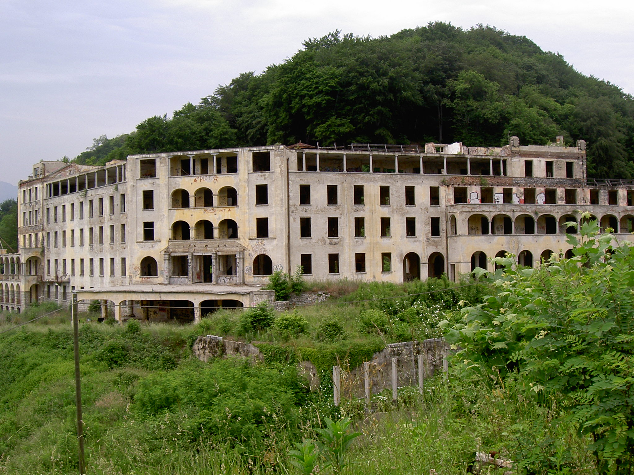 Abandoned pneumopathie sanatorium "Deutsches Haus Agra" near Agra / Collina d'Oro /Ticino / Switzerland